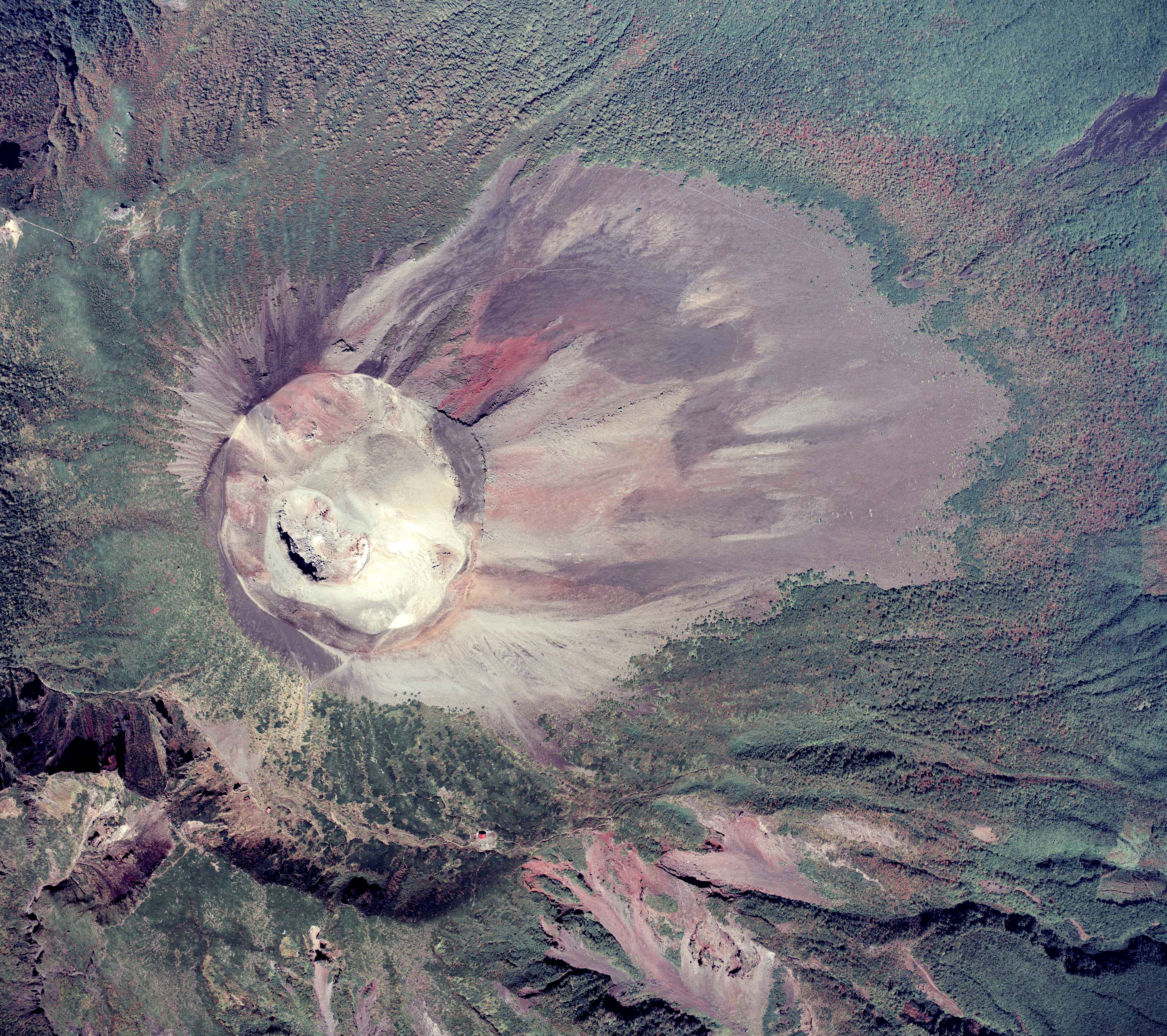 Japan: aerial view of Higashi Iwate volcano in Iwate prefecture.